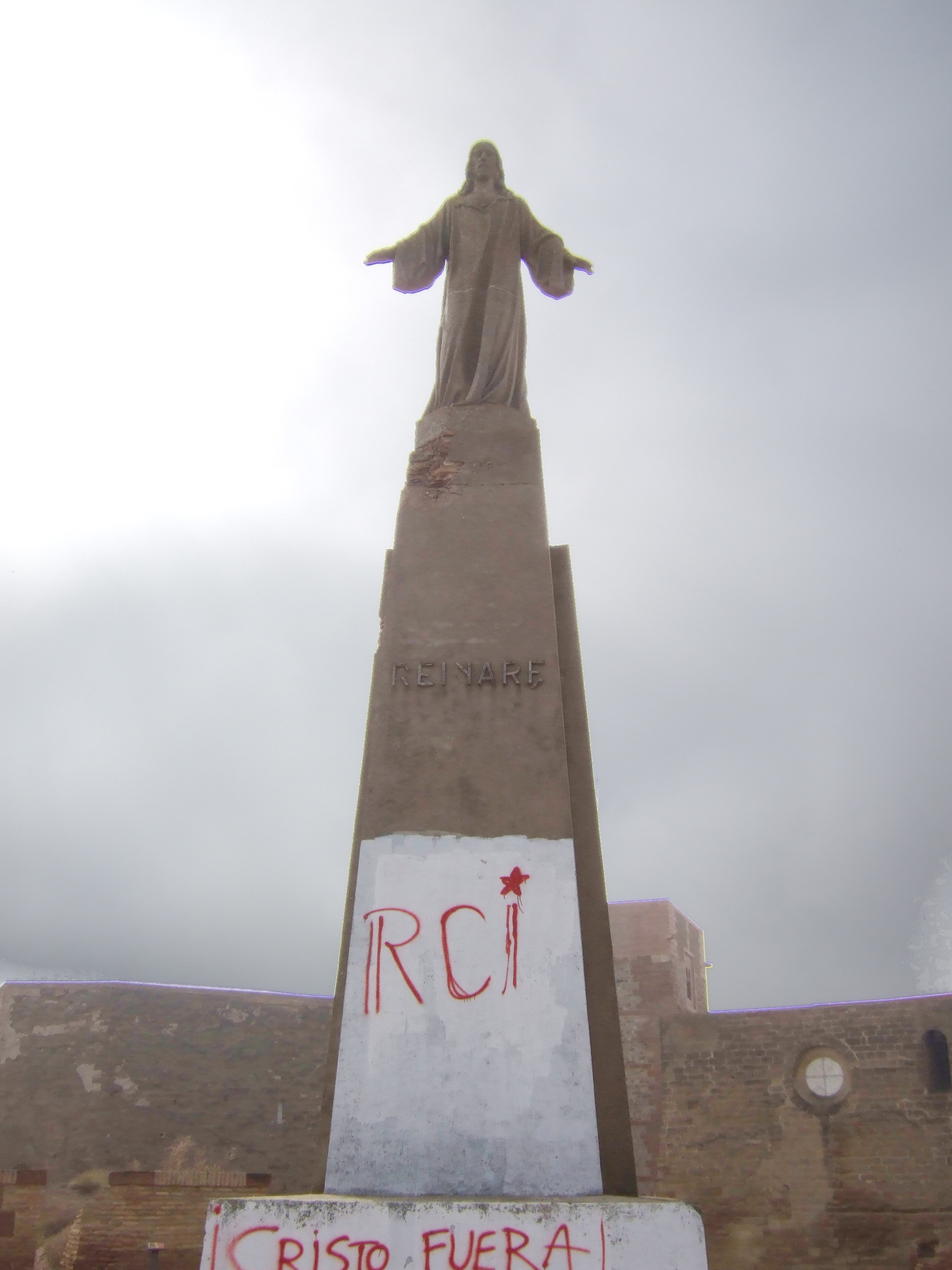 Castle of Monzon (Aragon, Spain)